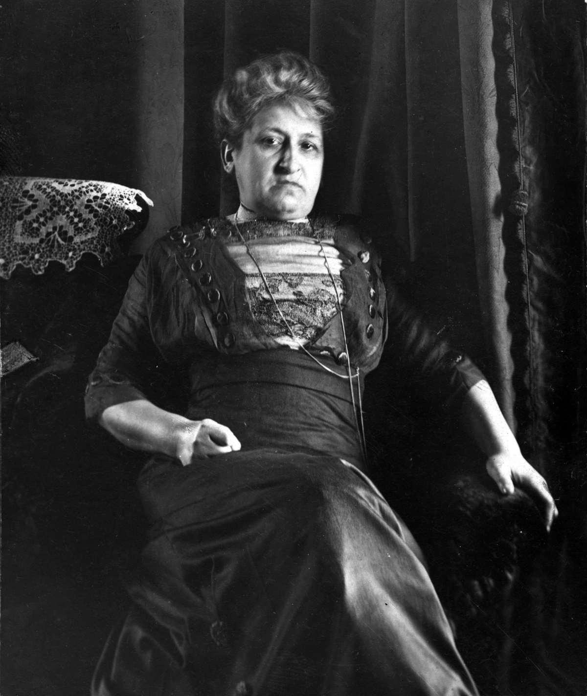 Dutch Dr. Aletta Jacobs, first Dutch female physician. Feminist, suffragette. Portrait, 1912